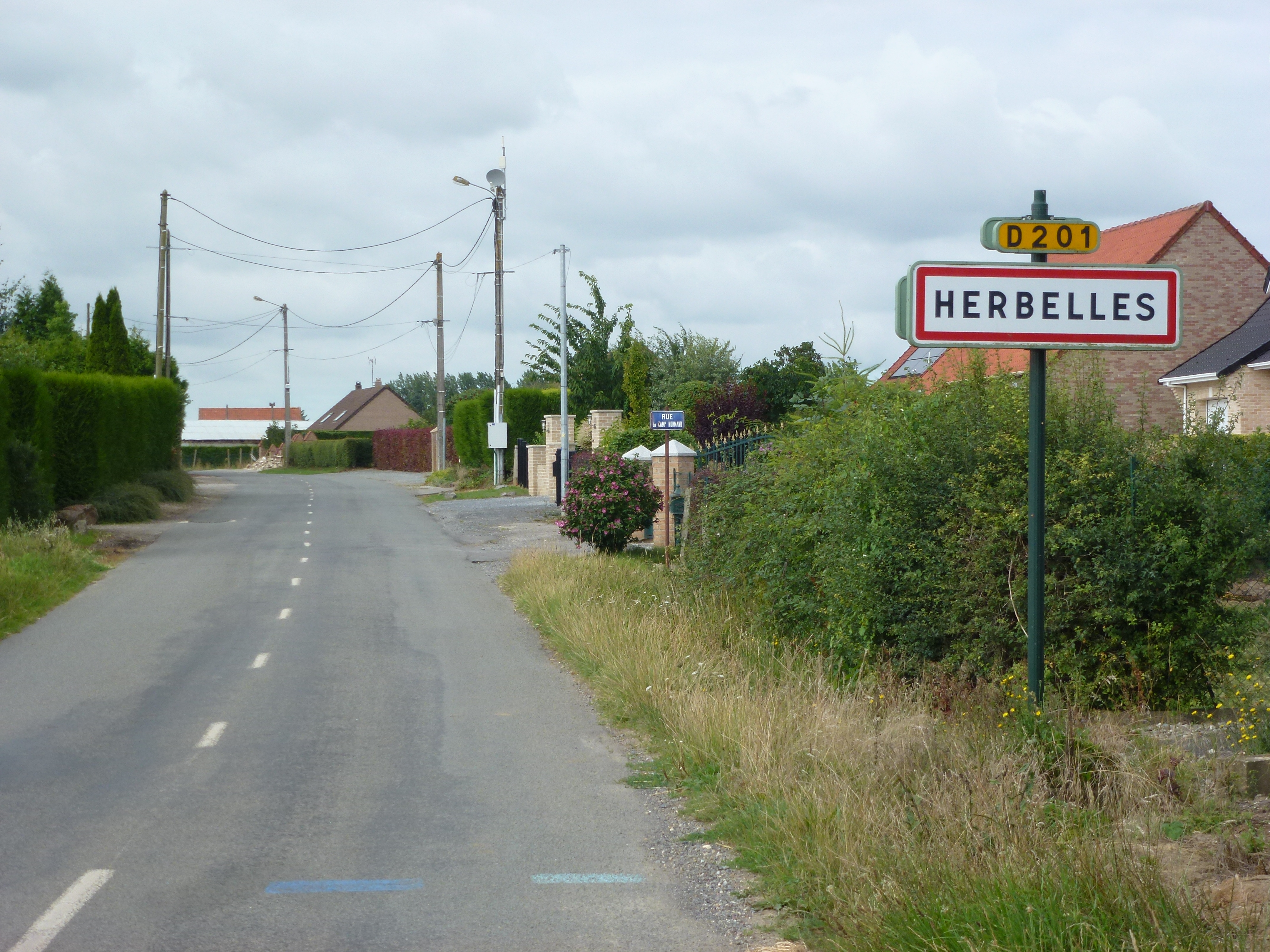 Herbelles (Pas-de-Calais, Fr) city limit sign